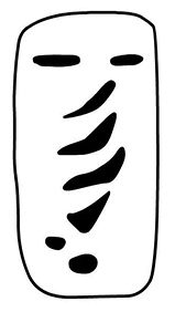 Drawing of the inner view of palatal plicae of Halongella schlumbergeri (Morlet, 1886), synonym: Plectopylis hirsuta Möllendorff, 1901. It is holotype of Plectopylis hirsuta Möllendorff, 1901 (after Gude 1901).